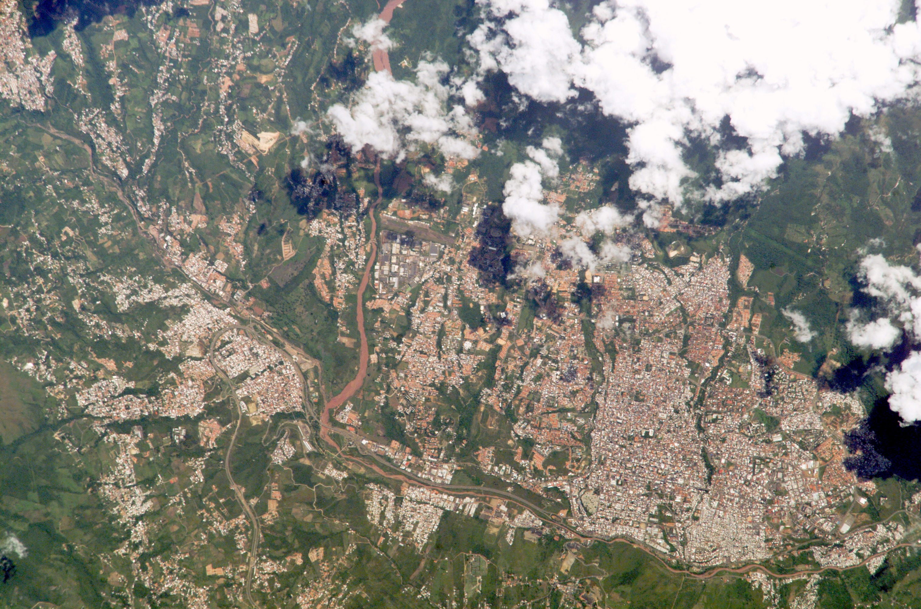 San Cristobal,Venezuela from space